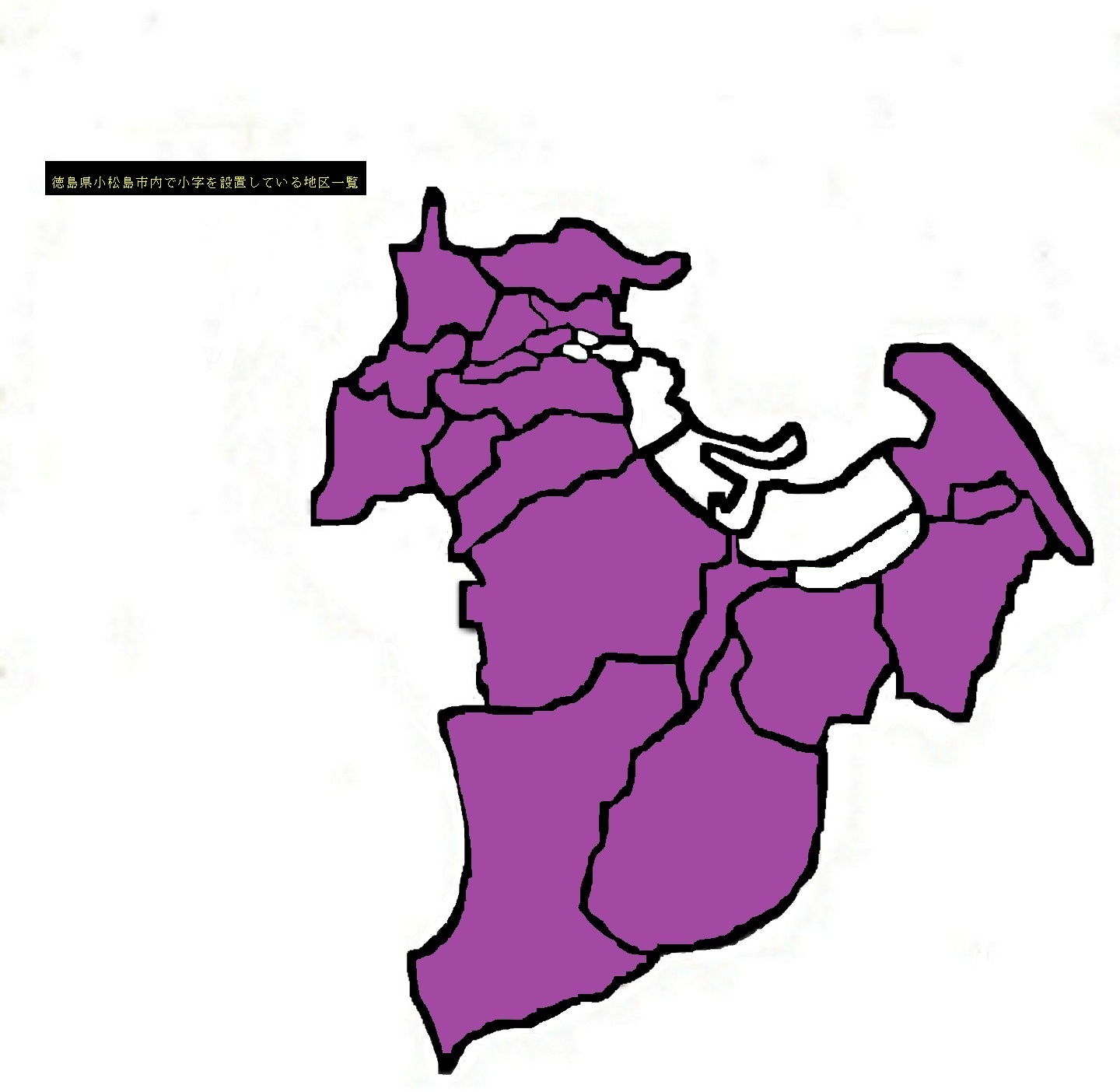 List of districts in the city has established a Koaza Komatsushima Tokushima